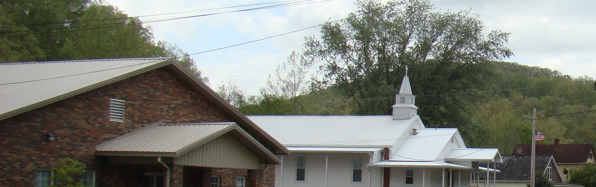 Frenchburg, Kentucky main street view.